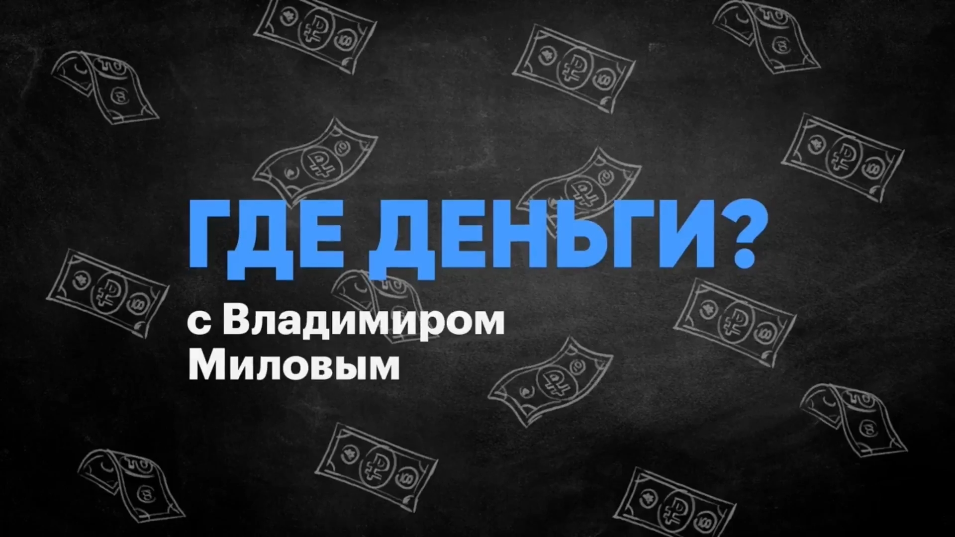 The title screen of the "Navalny LIVE" YouTube channel's program Gde dengi (Where Is The Money)